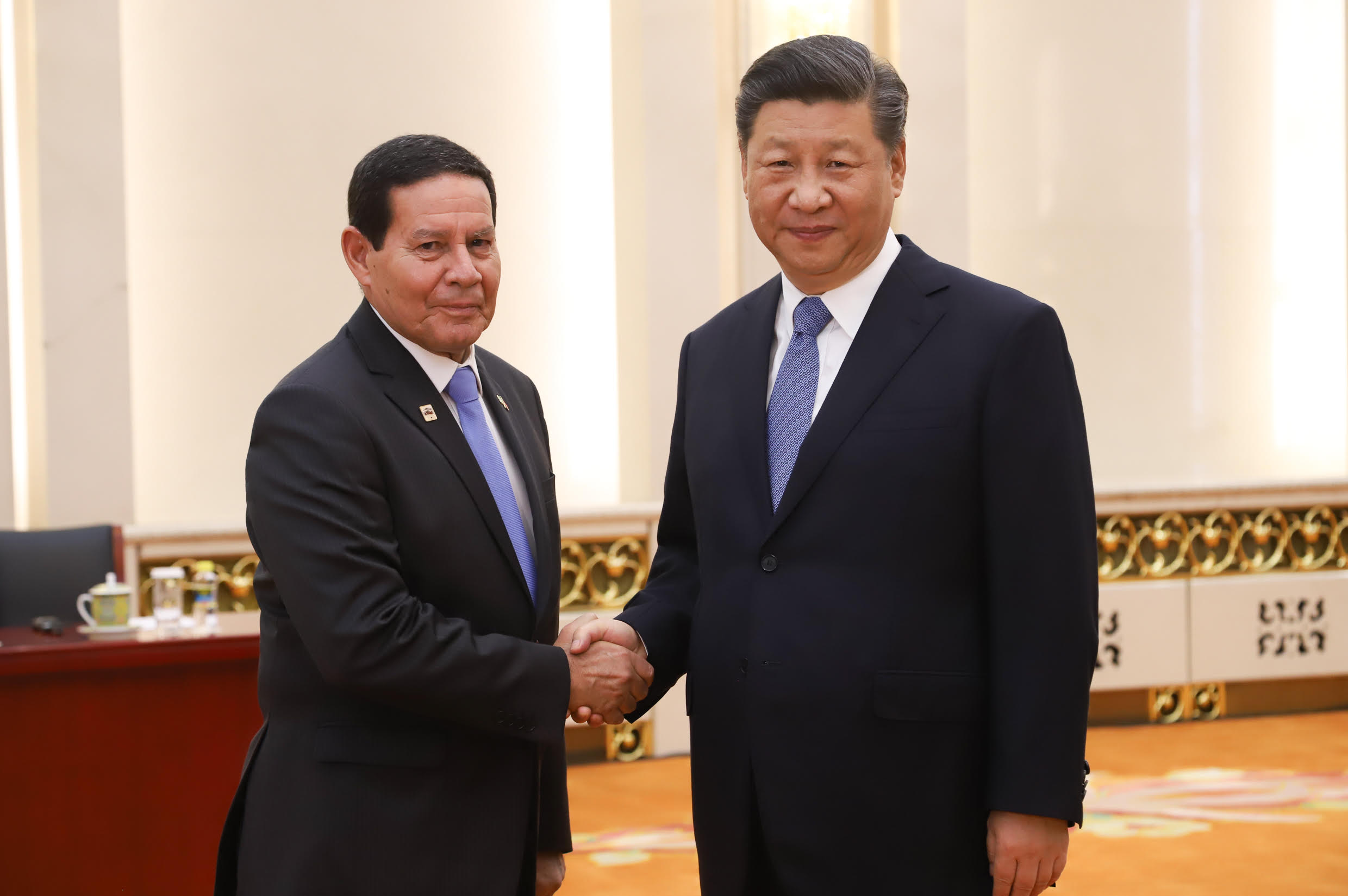 Vice President of Brazil, Hamilton Mourão, and General Secretary of the Communist Party of China, Xi Jinping.